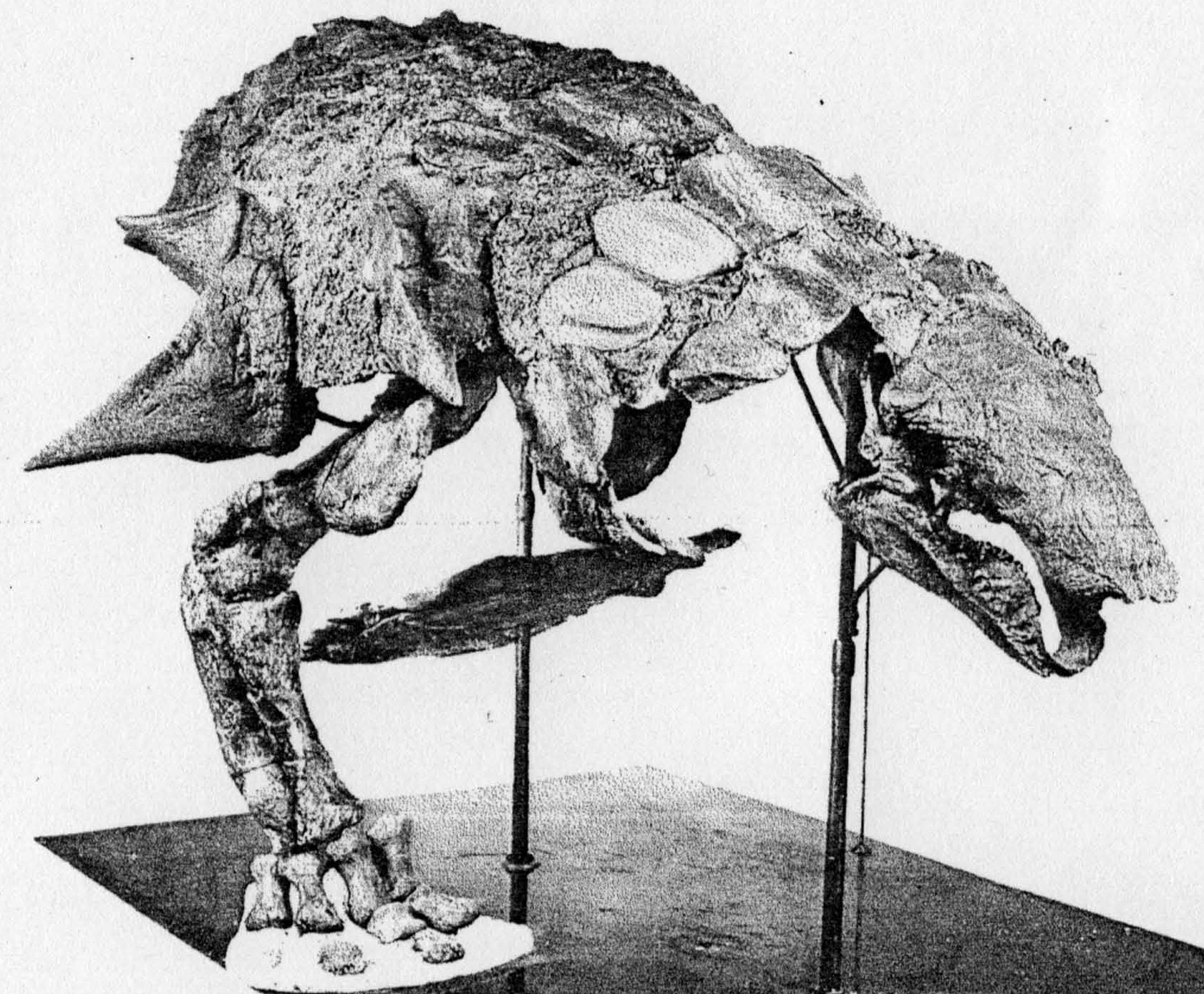 Edmontonia, Natural History Museum, New York.